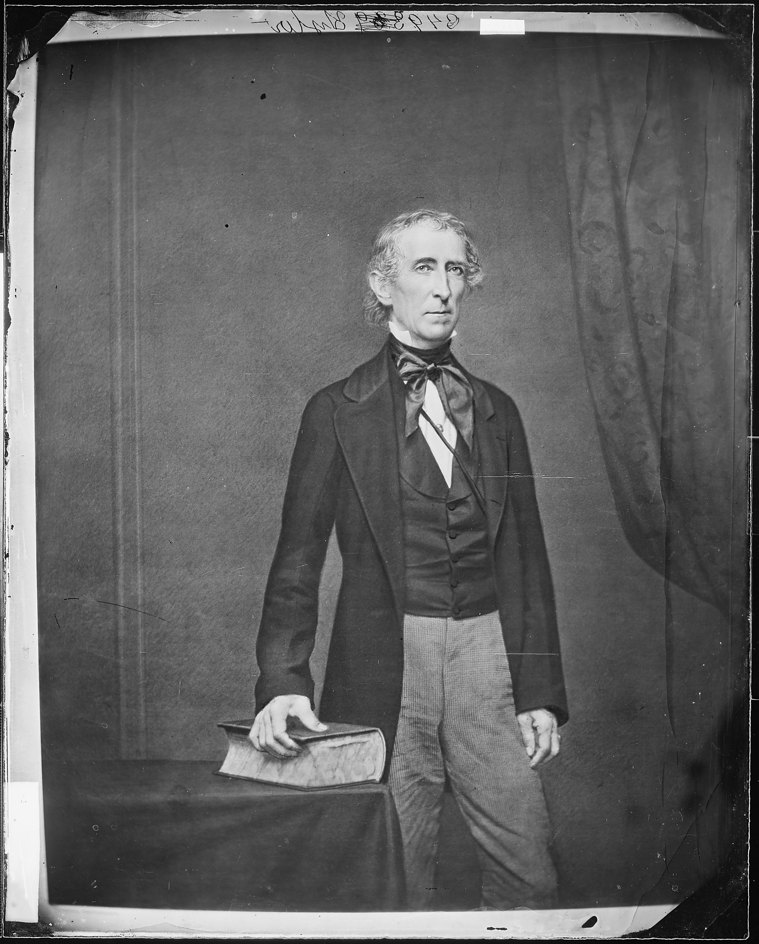 General notes: The image appears to be a photograph of some sort of "gravure" print, possibly derived from a photographic source; or a heavily-retouched photo-print. Not a direct photographic original of the person.